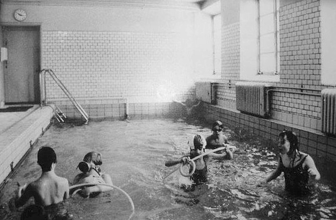 Schoolbath in Skarpnäcks gamla skola